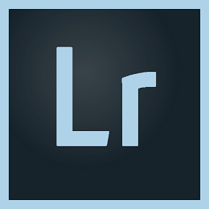 Adobe Photoshop Lightroom Icon